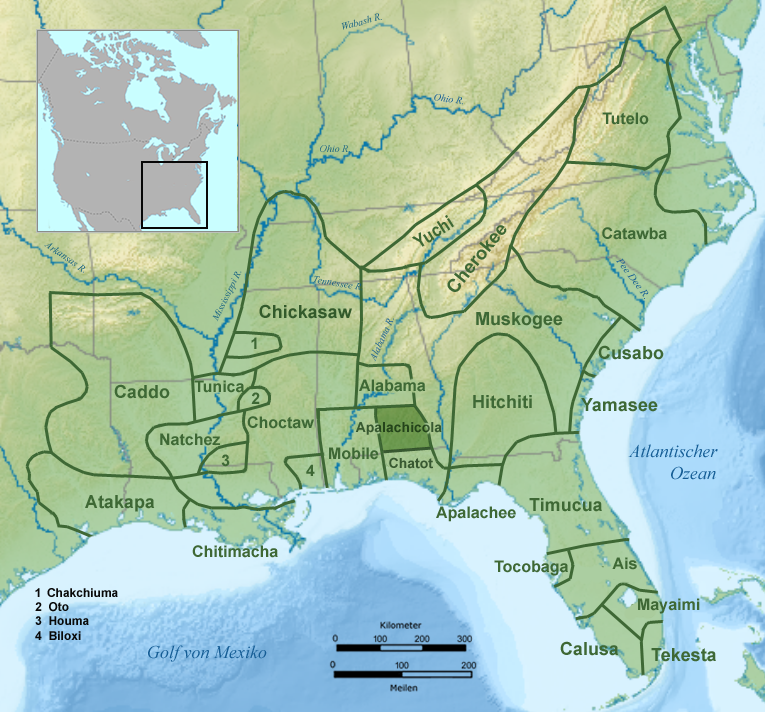 Tribal territory of Apalachicola during sixteenth century